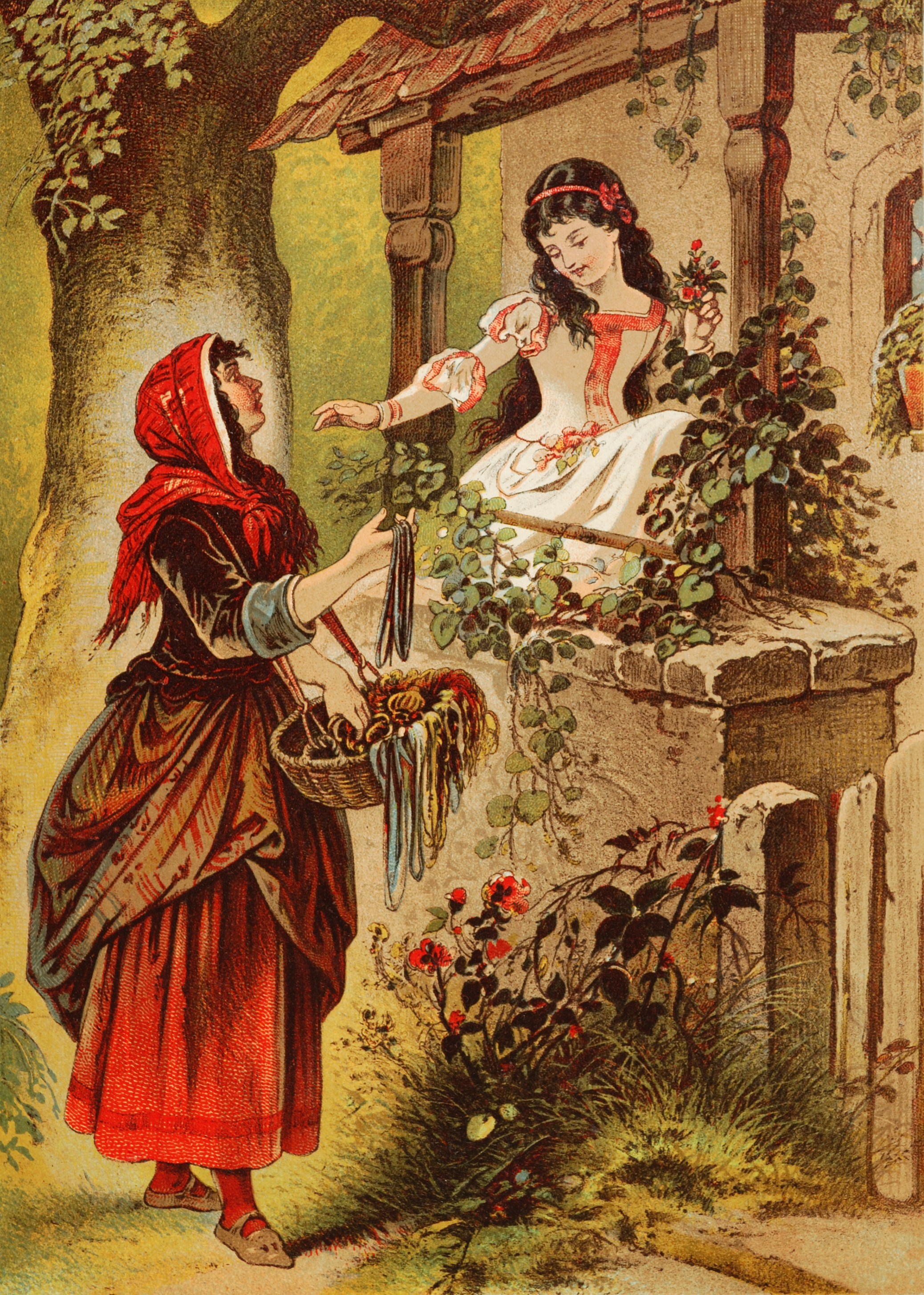 Snow White, illustration by Heinrich Leutemann or Carl Offterdinger